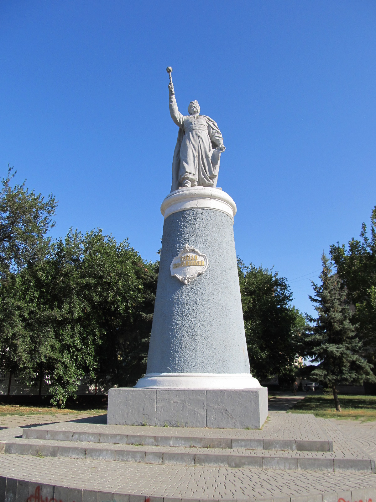 Bogdana Hmelnitskogo Ave., Melitopol, Zaporizhia Oblast, Ukraine.